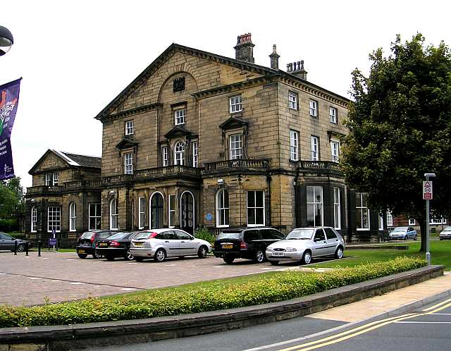 The Grange - Beckett's Park - Leeds Metropolitan University This was the site of a Kirkstall Abbey farm. The House was built in 1752. John Marshall, the Leeds textile ewntrepreneur, lived here between 1804-1818. William Beckett bought the estate in 1834.